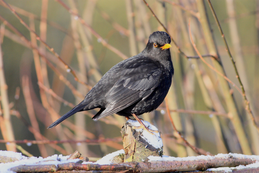 A male Common Blackbird near Rutland Water, Rutland, England.